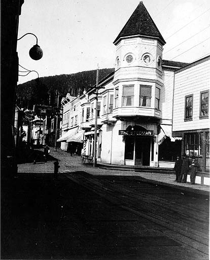 From John Cobb field notebook: Hotel Stedman, Ketchikan, Sept 19, 1908 Subjects (LCTGM): Streets--Alaska--Ketchikan; Hotels--Alaska--Ketchikan Subjects (LCSH): Hotel Stedman (Ketchikan, Alaska)